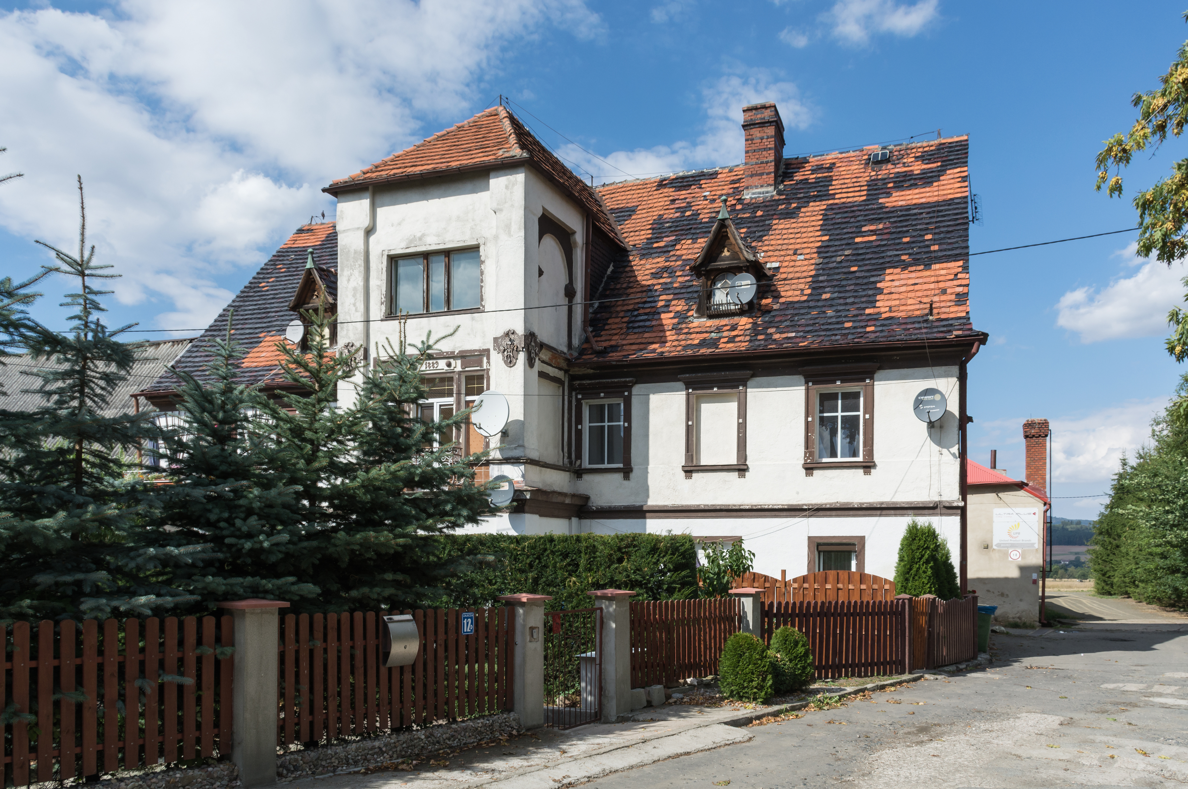 Zajęcza Street in Kłodzko